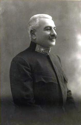 Leonidas Paraskevopoulos (Greek: Λεωνίδας Παρασκευόπουλος; 1860 – 1936) a Greek military officer and politician.